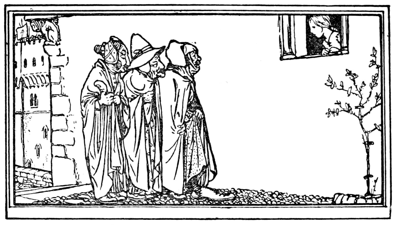 Illustration from a book of fairy tales